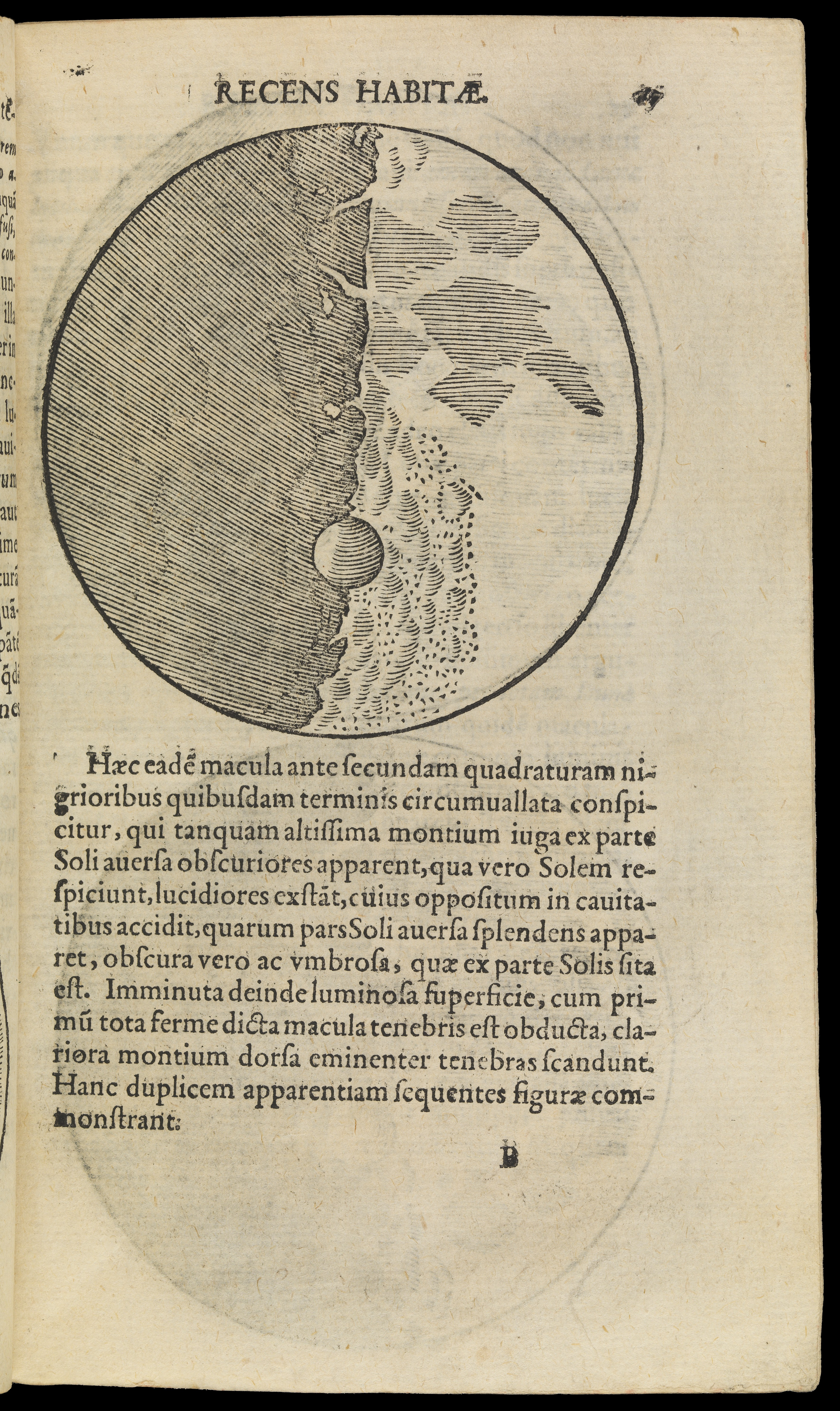 Page 87 of "Sidereus, nuncius magna longeqve admirabilia spectacula pandens, suspiciendaque proponens vnicuique praesertim vero philosophis, atque astronomis", by Galileo (1564-1642) First published in Venice, 1610. ('In Palthenius') Page is headed: RECENS HABITAE, with a large drawing of planets in orbit and Latin text beneath Rare Books Keywords: Astronomer; Astronomy; Jupiter